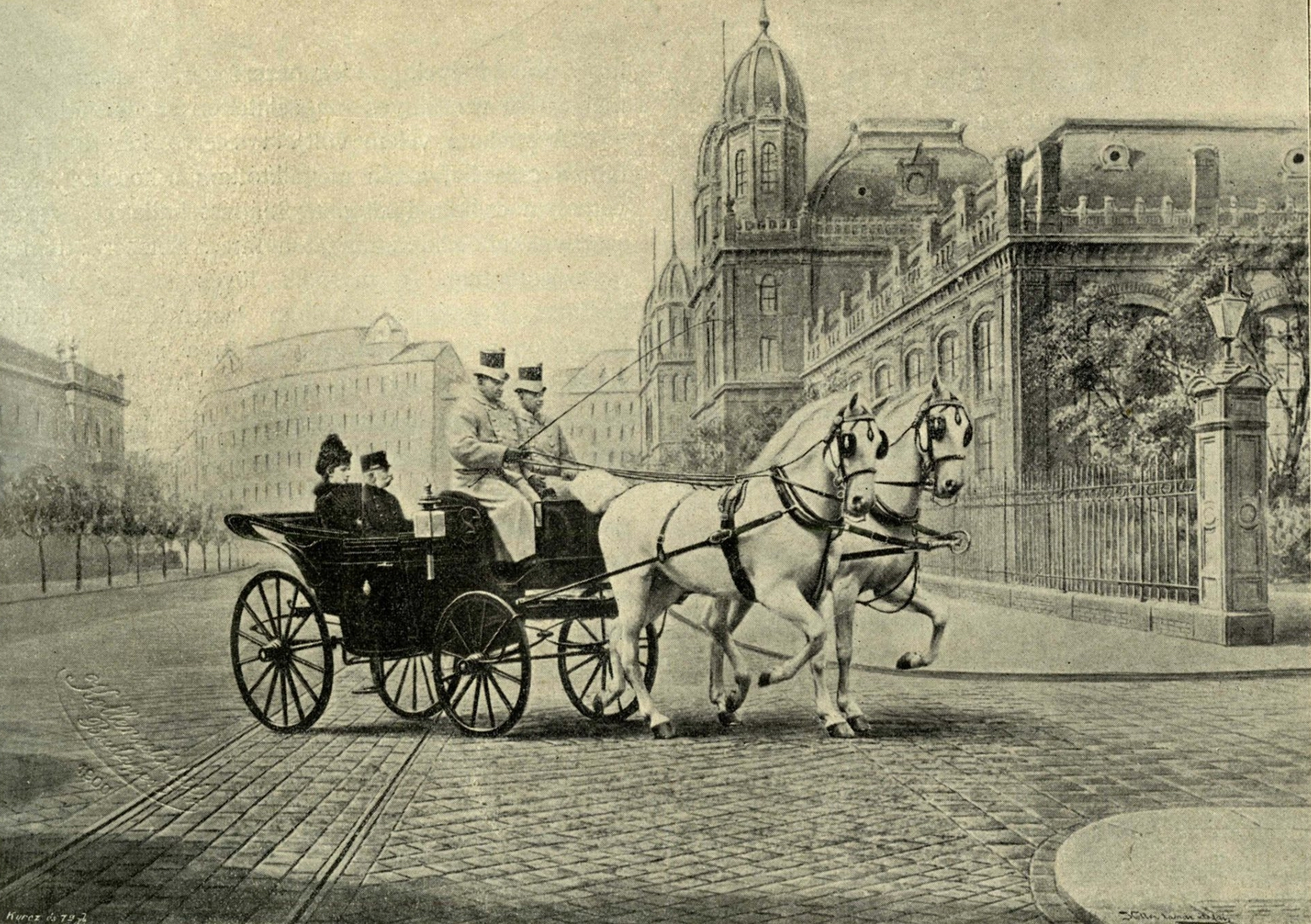 Franz Joseph I of Austria and Empress Elisabeth of Austria on the last visit in Budapest